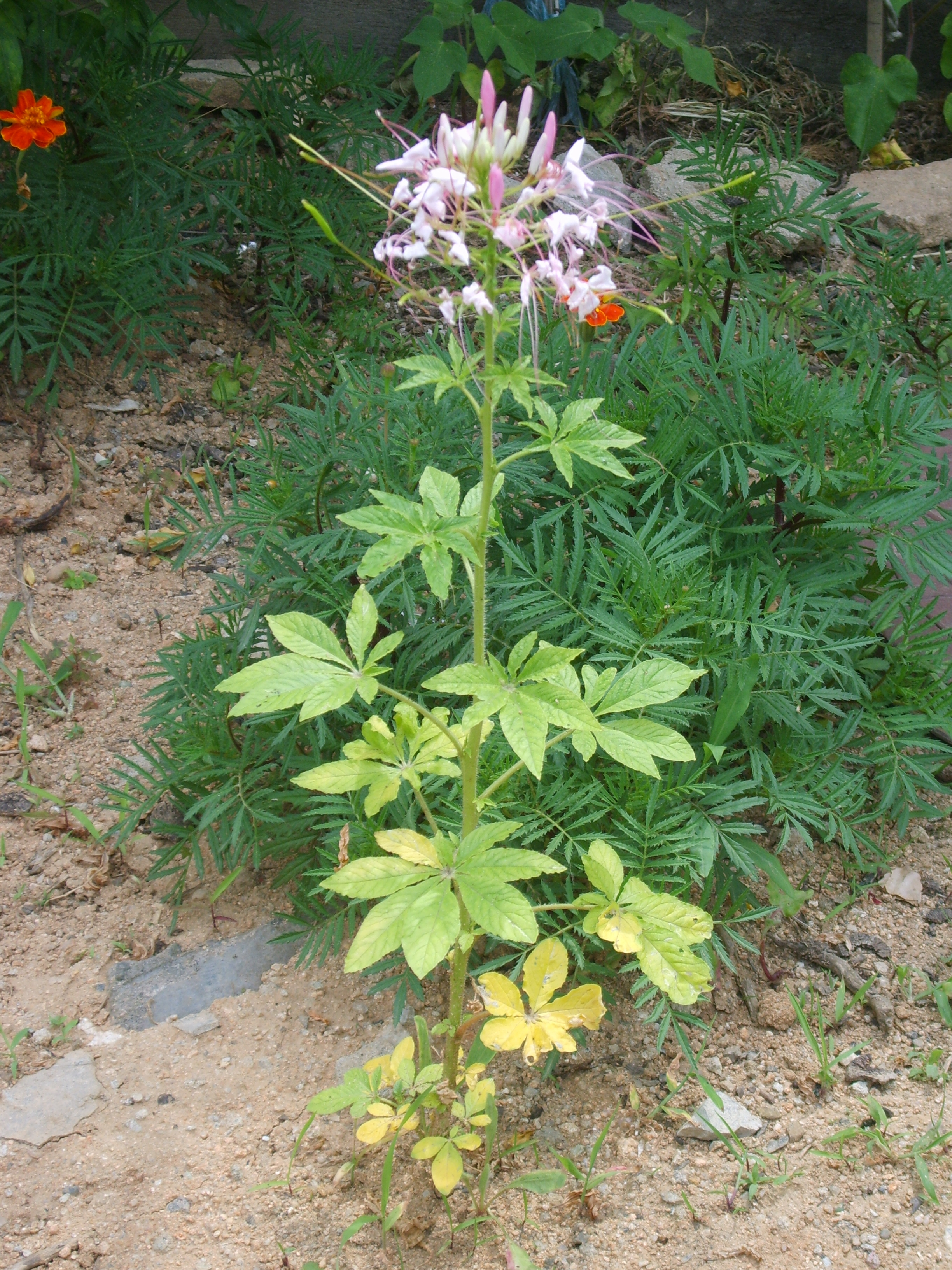 Cleome spinosa in Bupyung, Korea